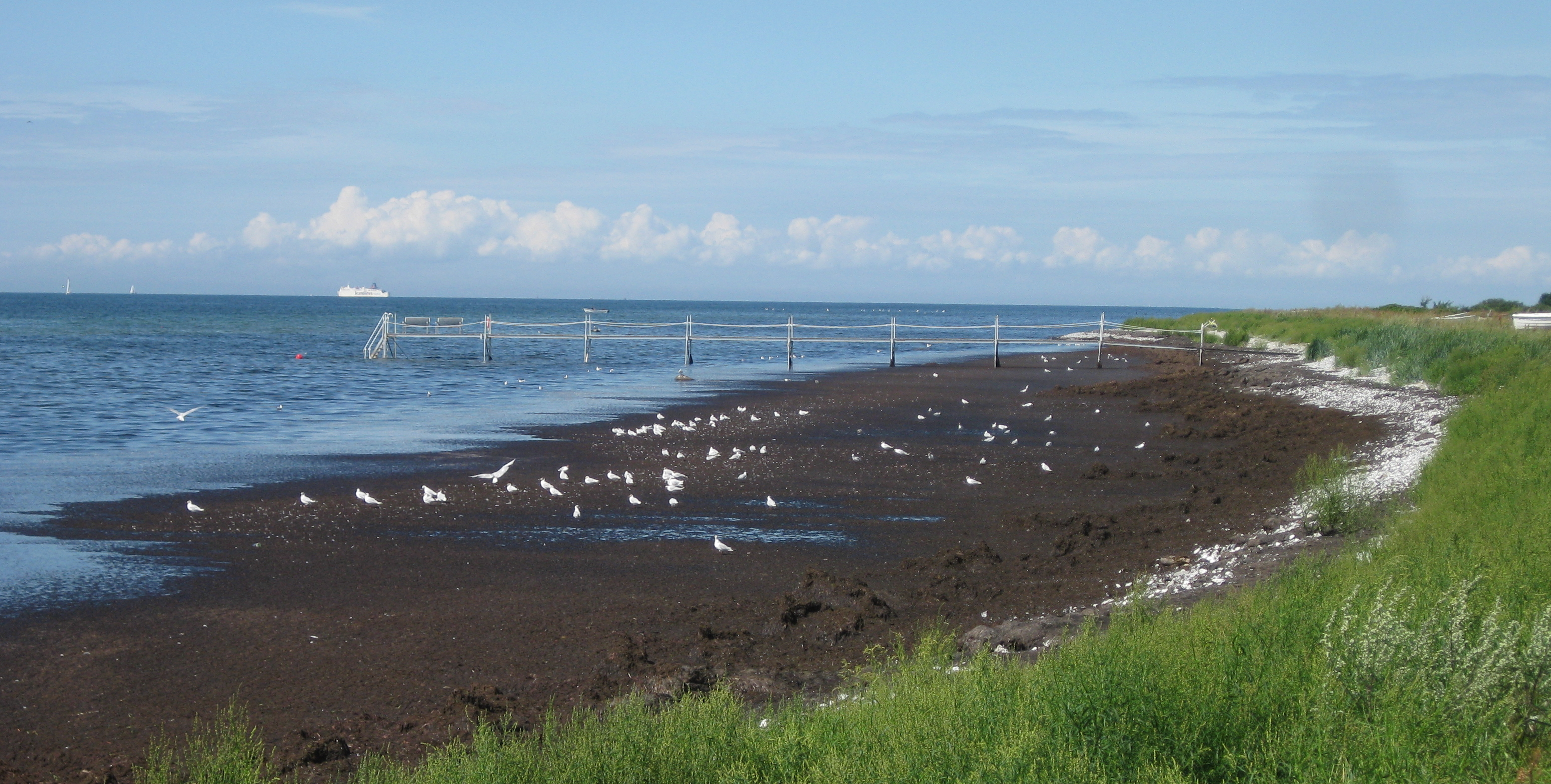 The beach at Simremarken in Scania, Sweden